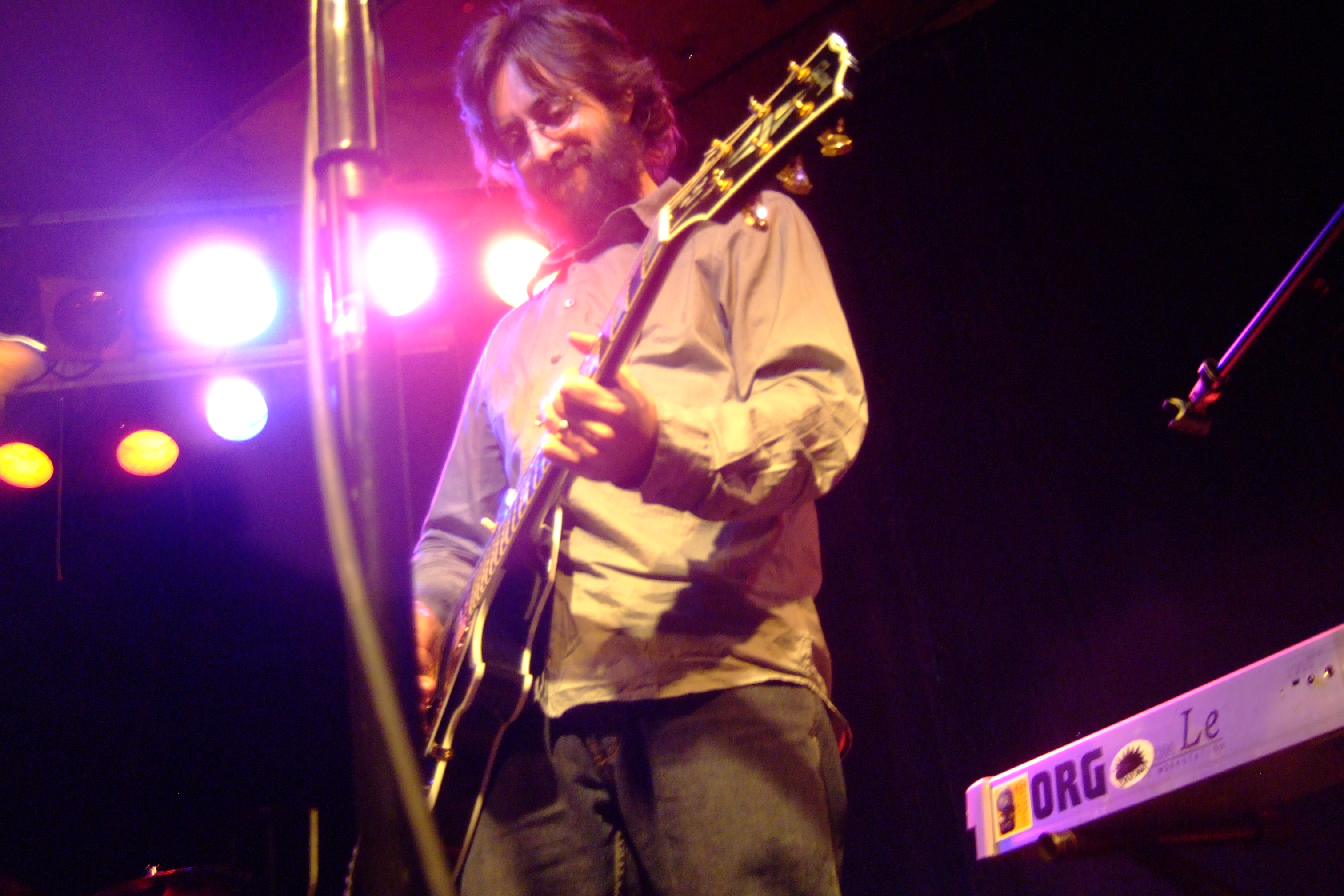 Bubba Kadane of The New Year. This photo sucks but I love that he's smiling in it. I love The New Year but god I miss Bedhead so much.